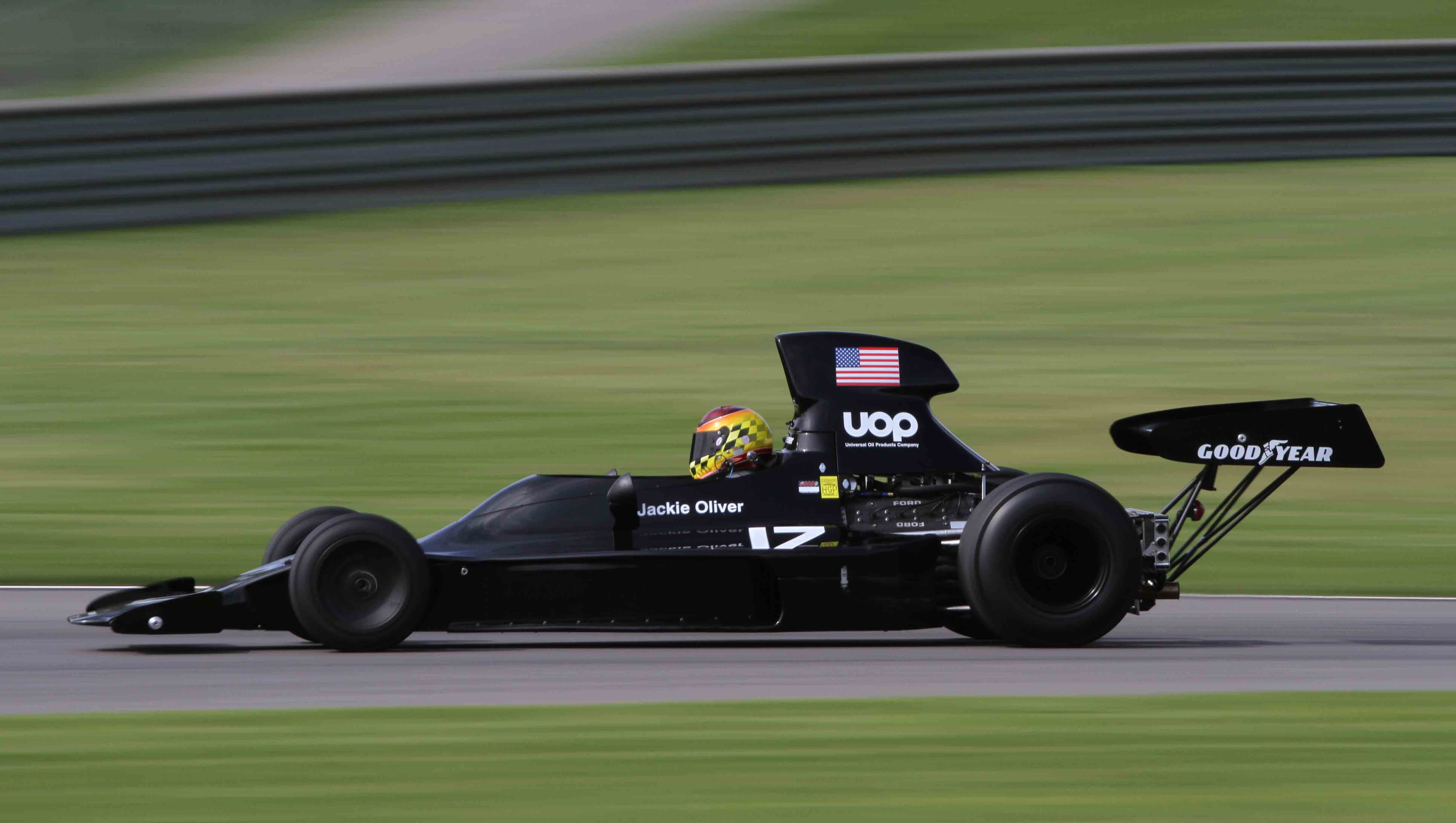 Shadow DN1 at Barber Motorsports Park, 2010